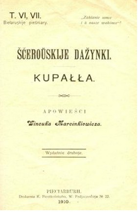 Vintsent Dunin-Martsinkyevich. Дажынкі. Купала Беларуская (тарашкевіца): Вінцэнт Дунін-Марцінкевіч. «Шчэраўскія дажынкі». «Купала».